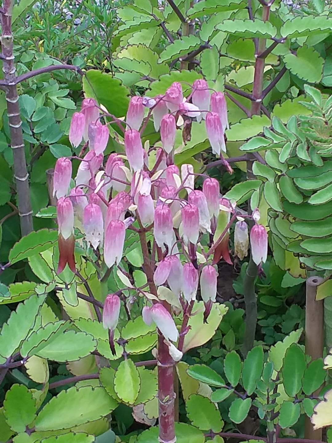 Bryophyllum pinnatum. 2018 Taichung World Flora Exposition, Taiwan.